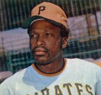 Professional baseball player Al Oliver